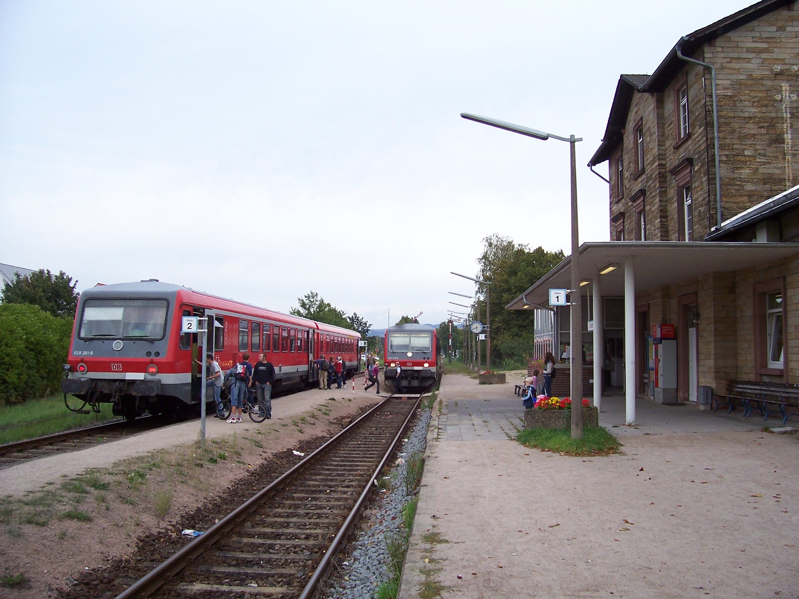 German class 628 in Lorsch, germany.